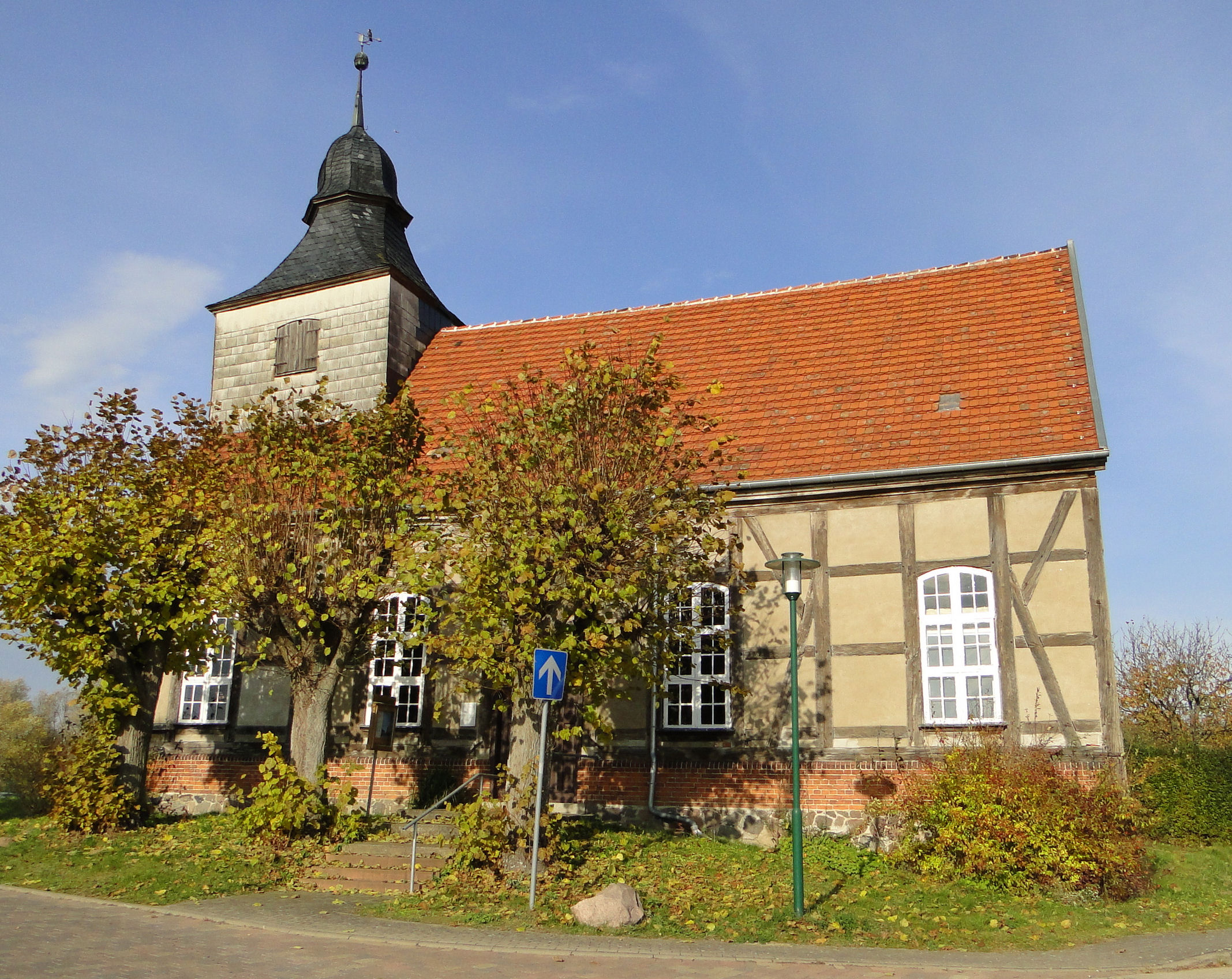 Church in Thurow, district Mecklenburg-Strelitz, Mecklenburg-Vorpommern, Germany